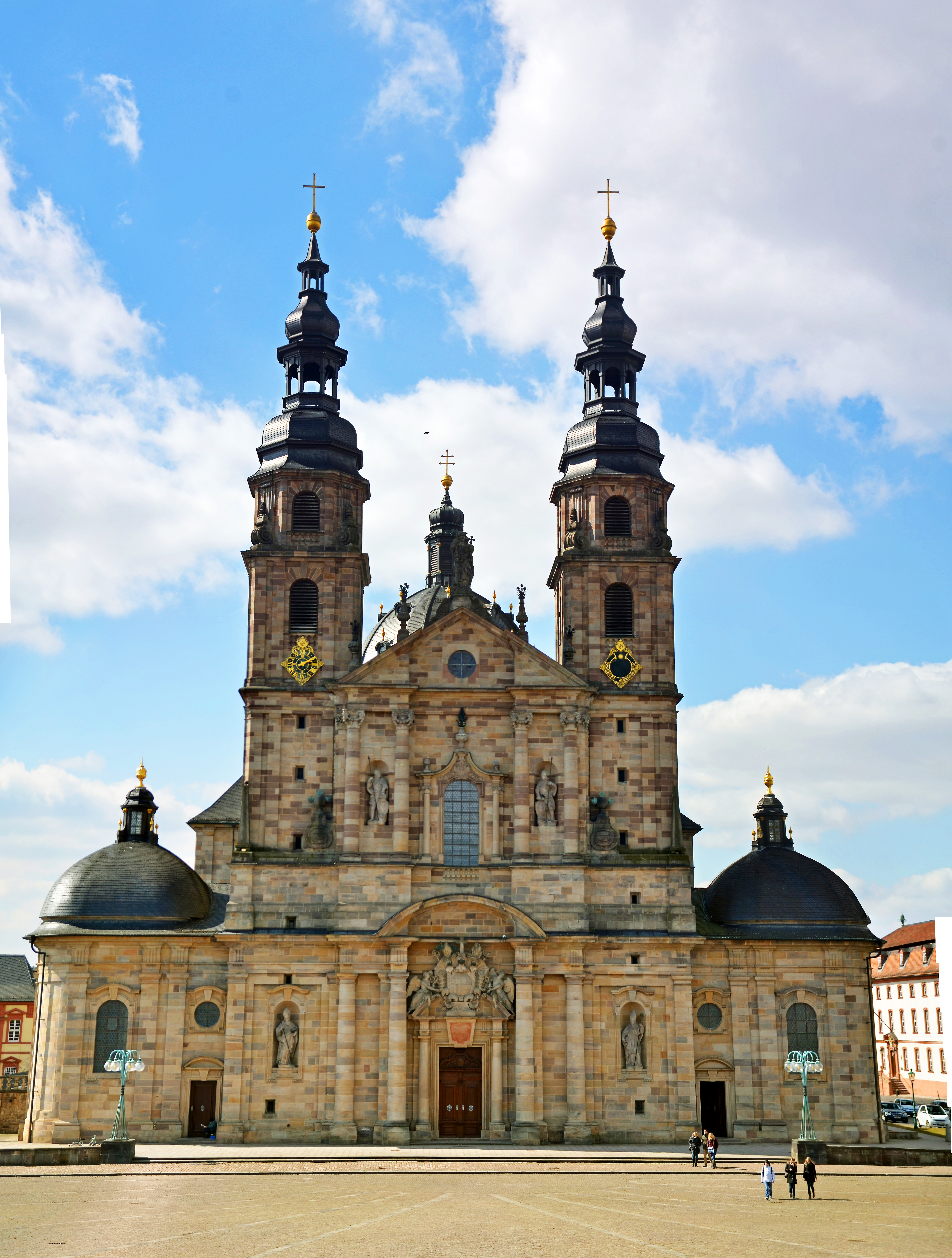 Fulda Cathedral